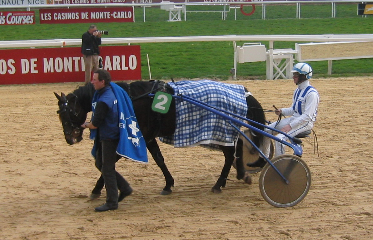 Christophe Gallier and Opus Viervil in Critérium de vitesse in Cagnes-sur-Mer 2008